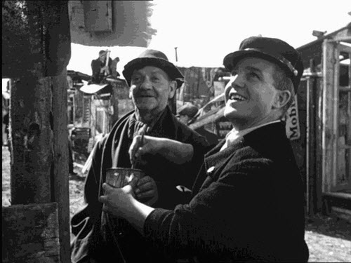 Screen shot of film: Miracle in Milan.